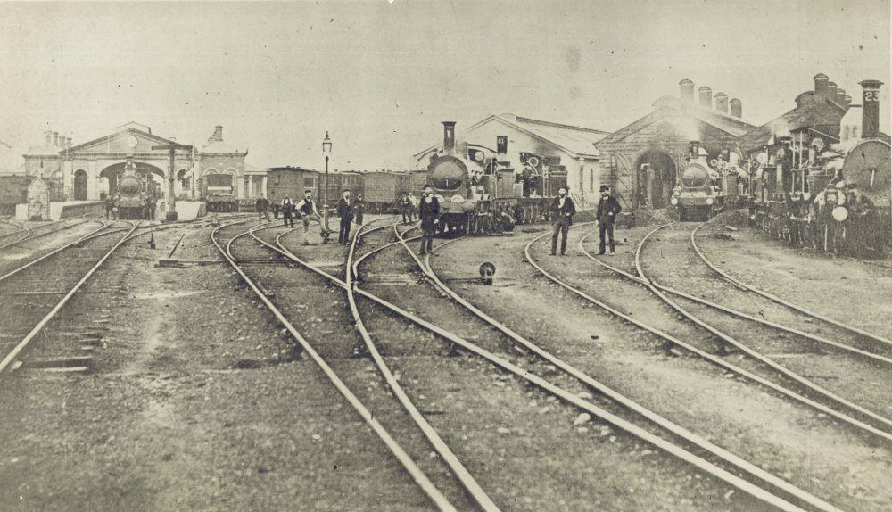 View of the old Sydney Railway Station Dated: c.1875 Digital ID: 17420_a014_a0140000257 Rights: We'd love to hear from you if you use our photos/documents. Many other photos in our collection are available to view and browse on our website using Photo Investigator.